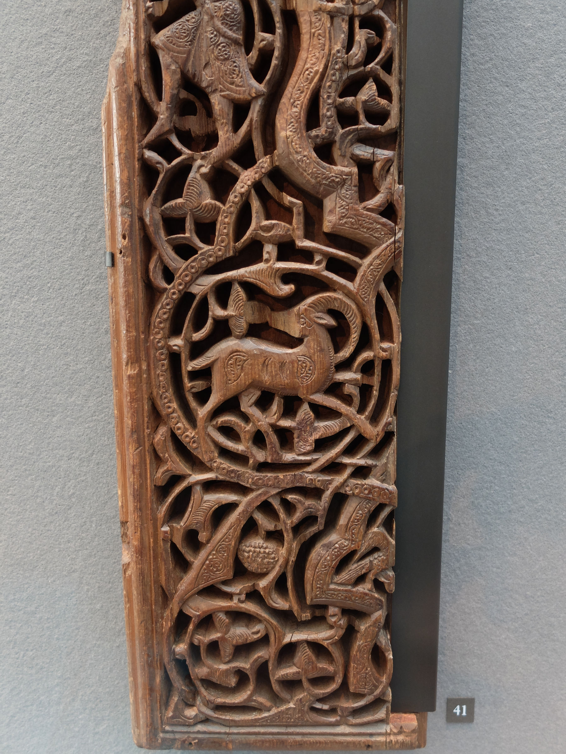 Carved wooden panels attributed to the Fatimid Palaces in Cairo (11th century), at the Louvre Museum. According to museum text explanation (item OA 4062, text in French only): the piece was found during excavations in one of the Mamluk monumental complexes built on the site of the former Fatimid palaces. In the same area, other wooden pieces with images of animals and humans on vegetal backgrounds were found. This piece probably belonged to a door.